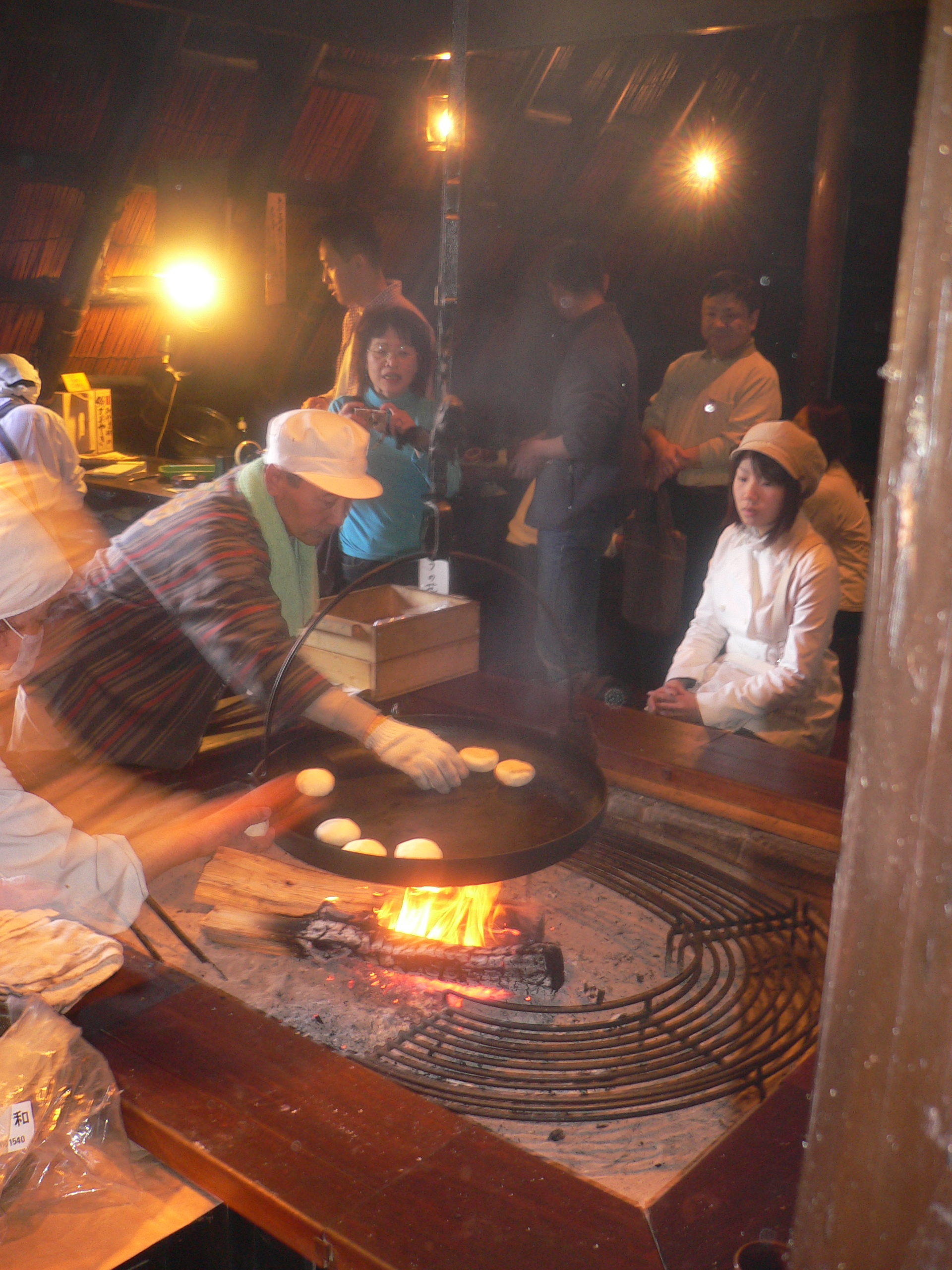 Oyaki being traditionally cooked over an open fire at Oyaki Village in Ogawa Village, Nagano Prefecture, Japan.